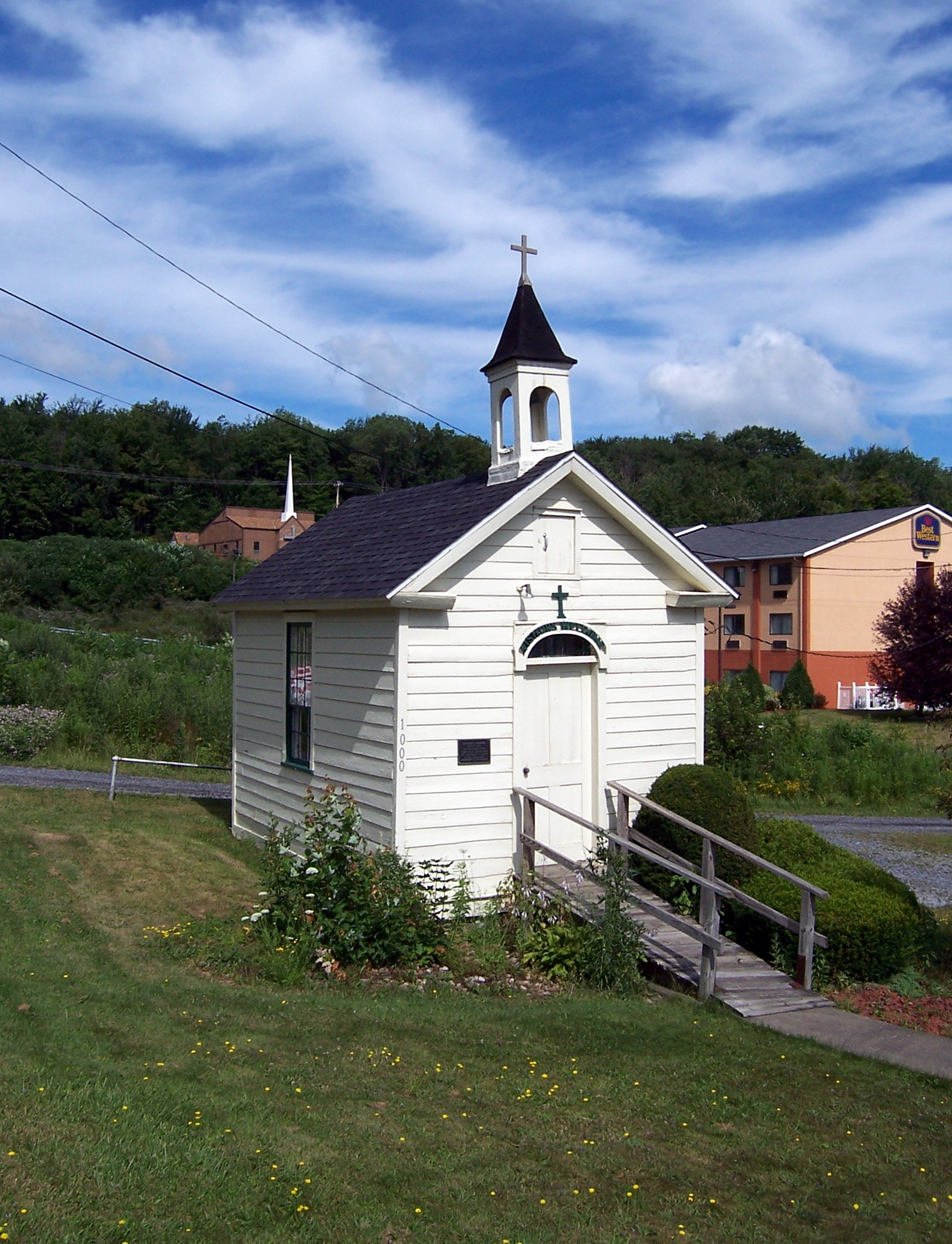 Decker's Chapel in Saint Marys, Pennsylvania. It is one of the smallest church buildings in the United States. It is listed on the National Register of Historic Places.